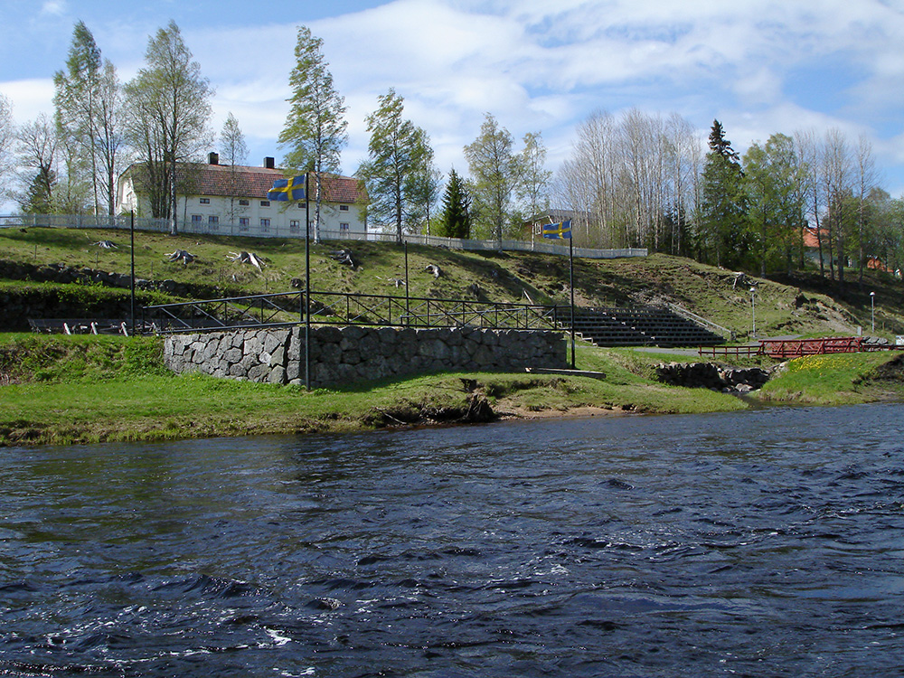 Krypedalen by river Sävarån with the foundations of former Sävar ironworks. Above is the mansion, built in the beginning of the 19th century.